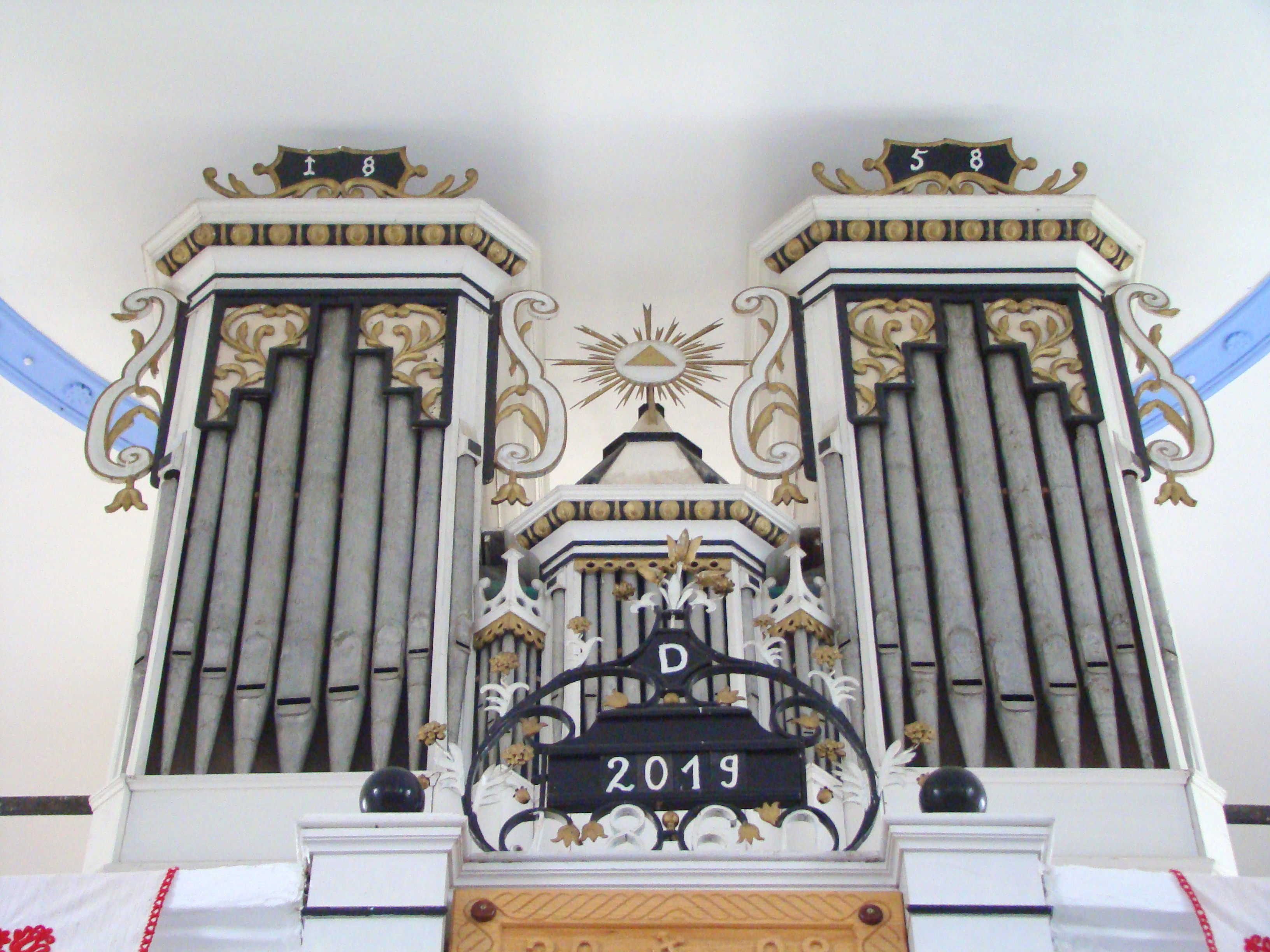 Reformed church in Ghinești, Mureș County, Romania